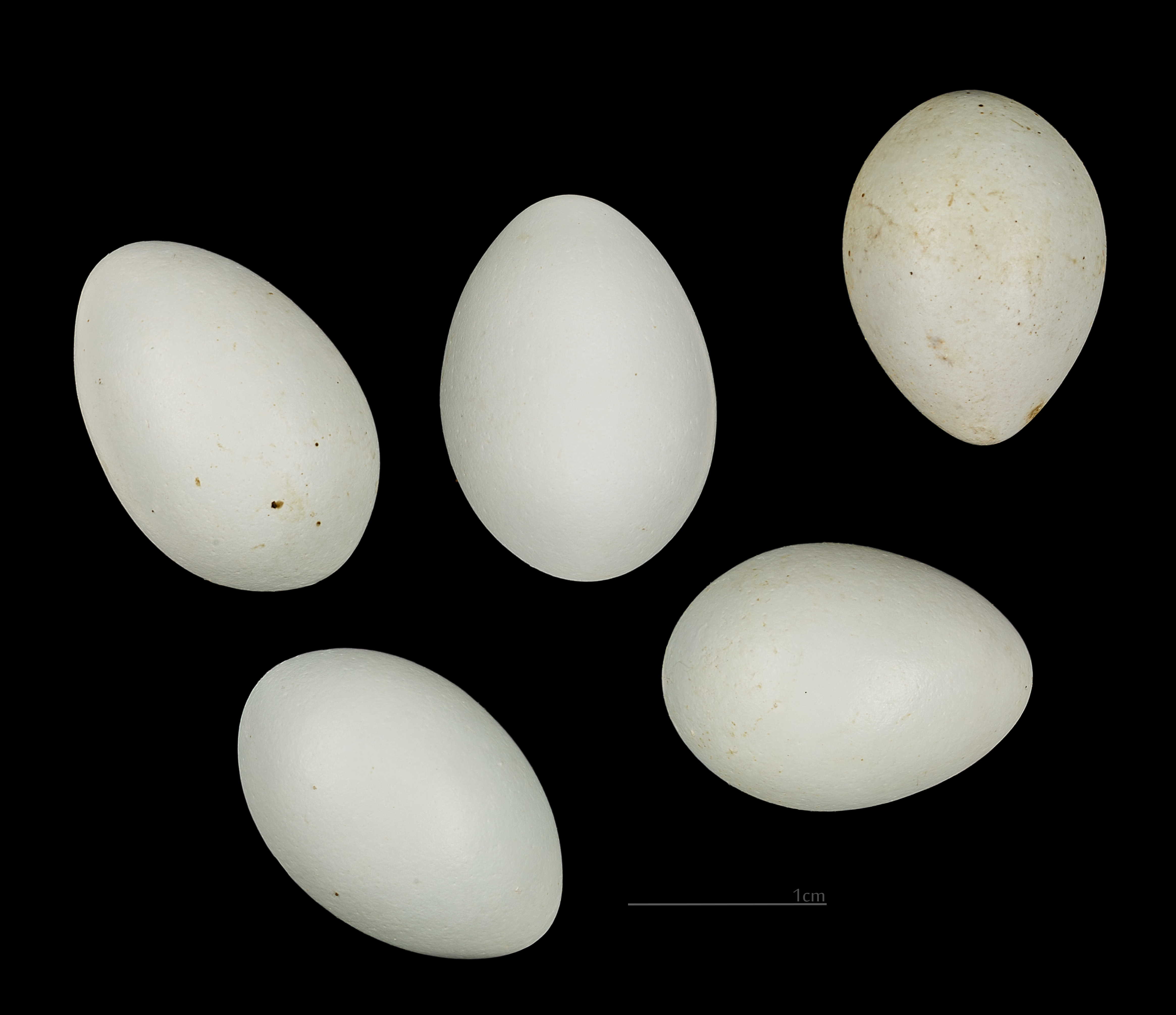 Egg of Red Fody. Collection of Jacques Perrin de Brichambaut.